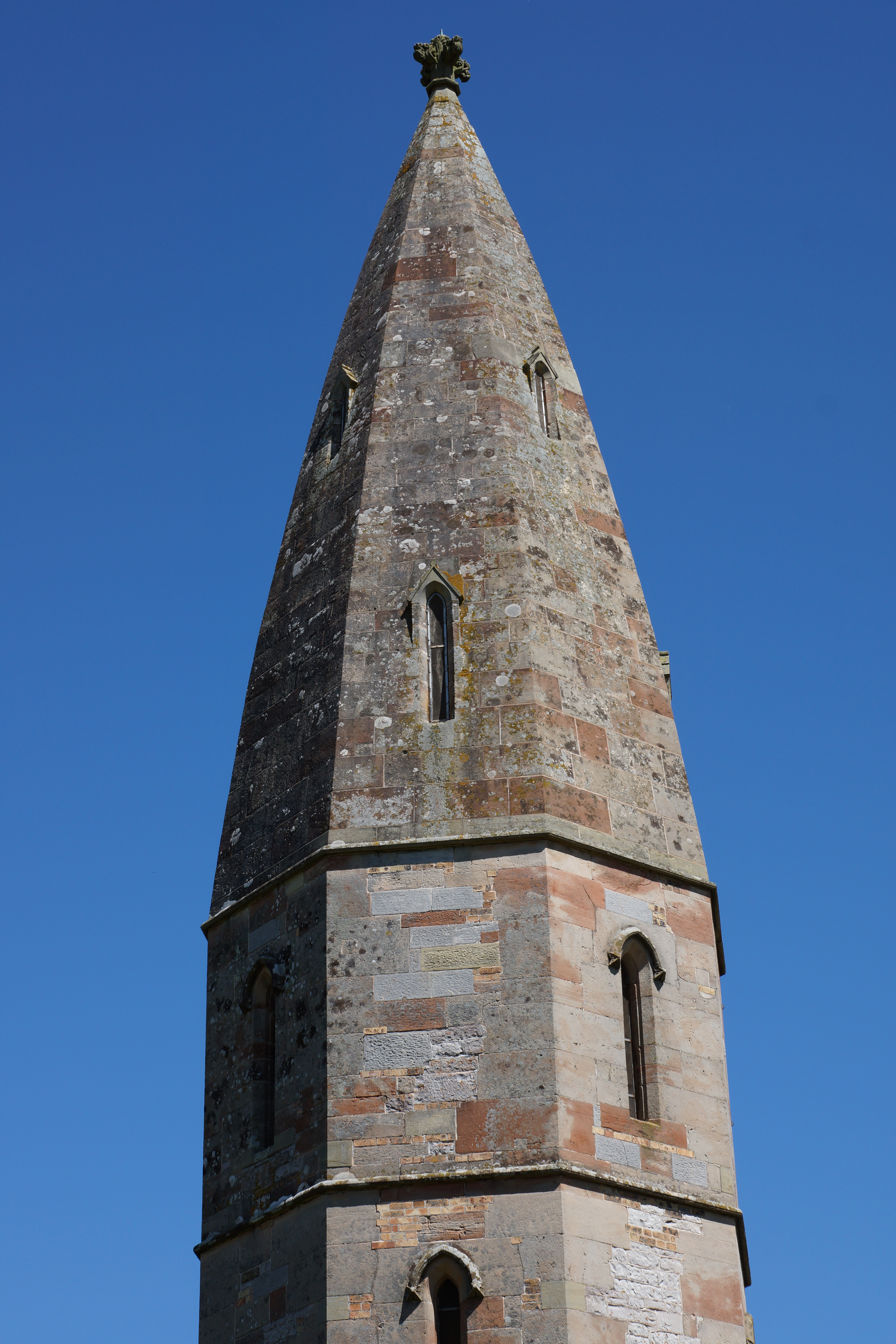 Spire of the parish church of St Michael the Archangel, Llanyblodwel, Shropshire, England